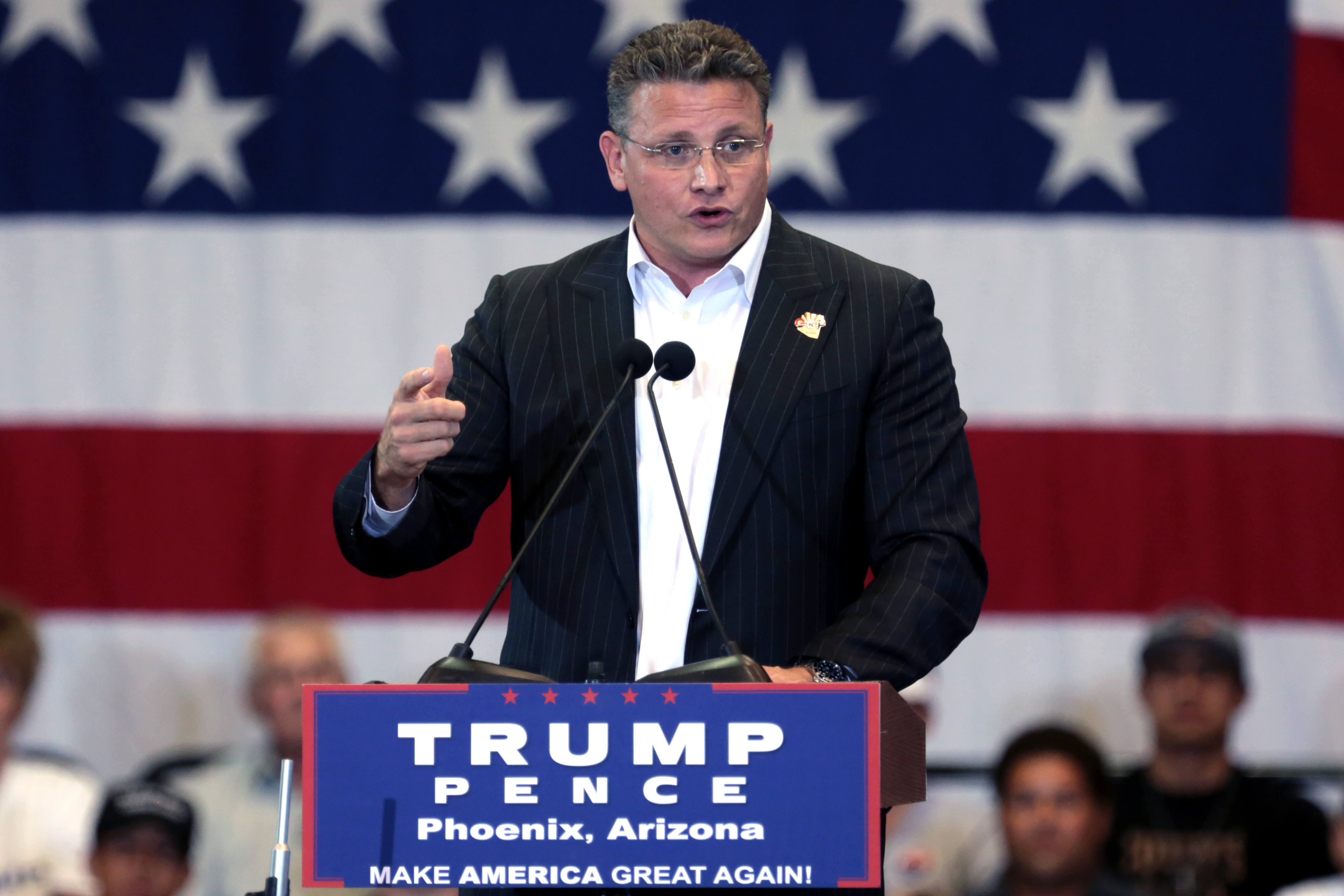 Chairman Robert Graham speaking at a campaign rally with Governor Mike Pence at the Phoenix Convention Center in Phoenix, Arizona.